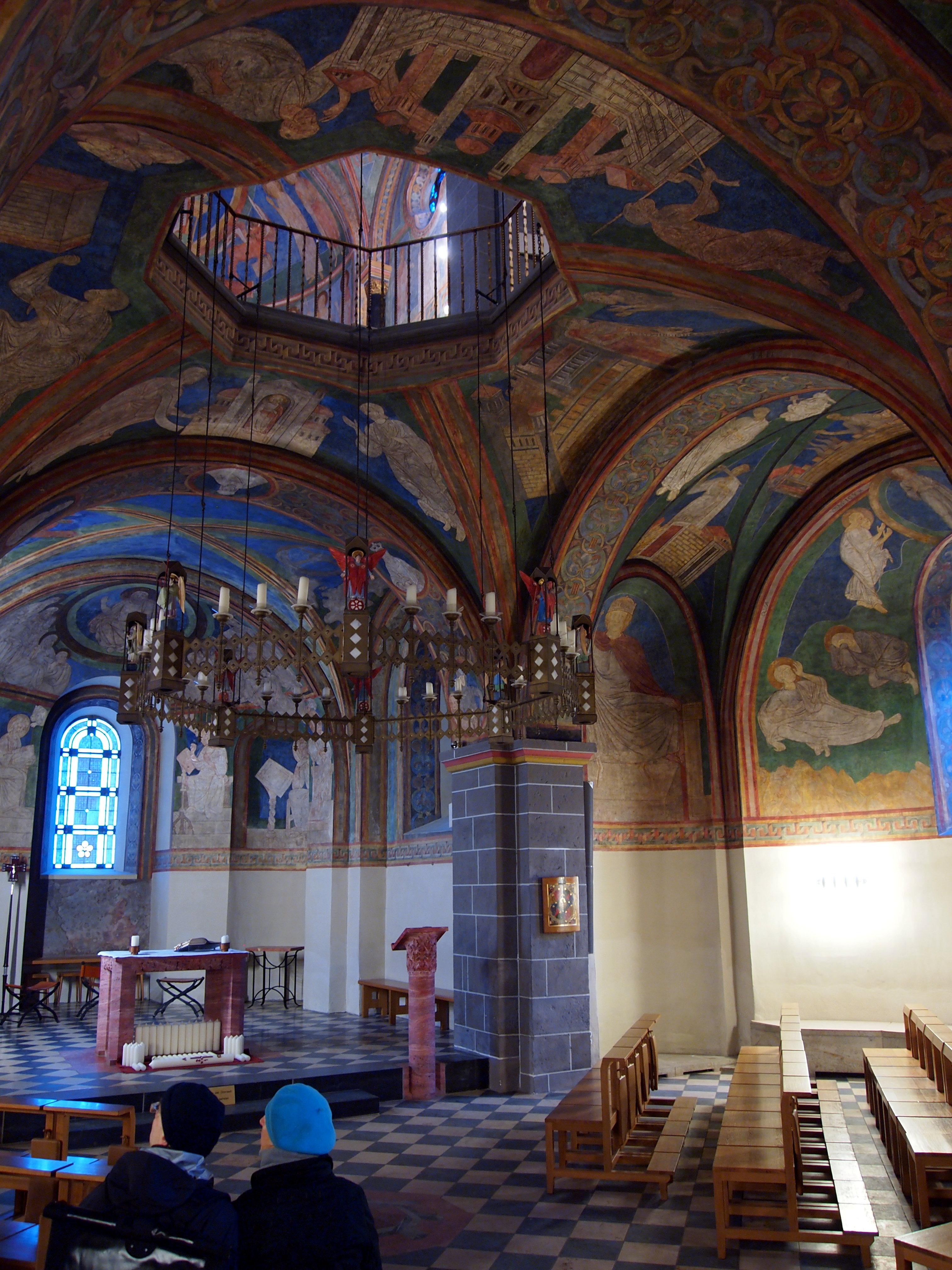 Church St.Maria and Clemens in Bonn-Beuel